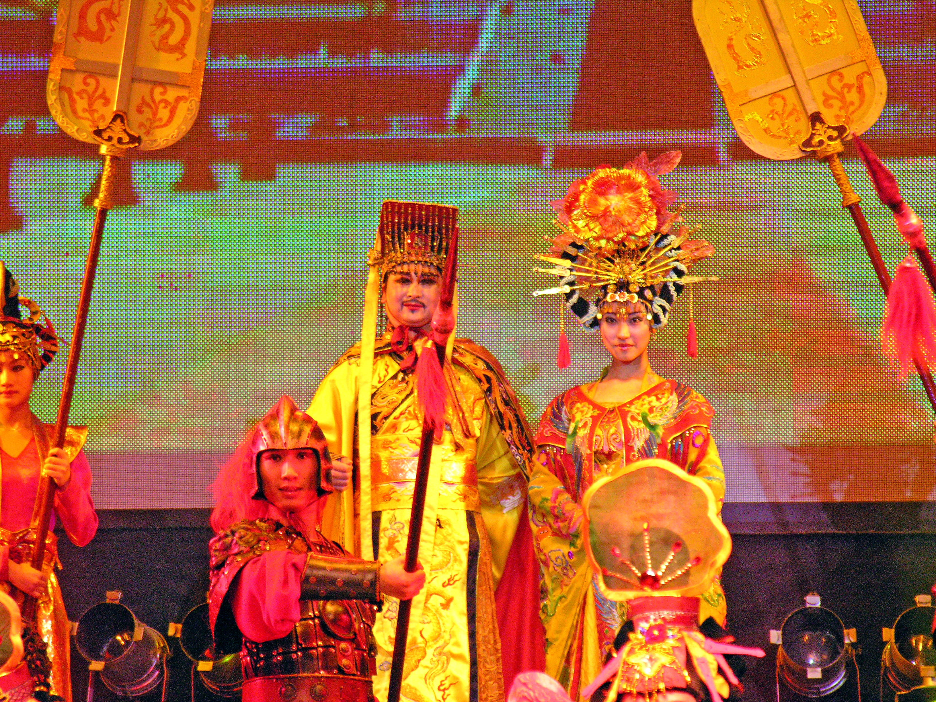 The performance was very colourful.